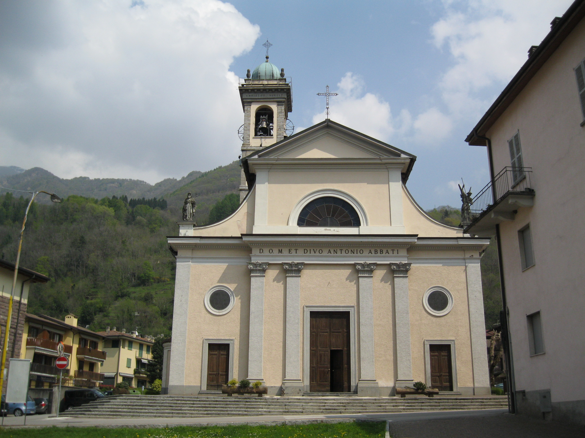 church in Introbio, a small town in Lombardy, Italy